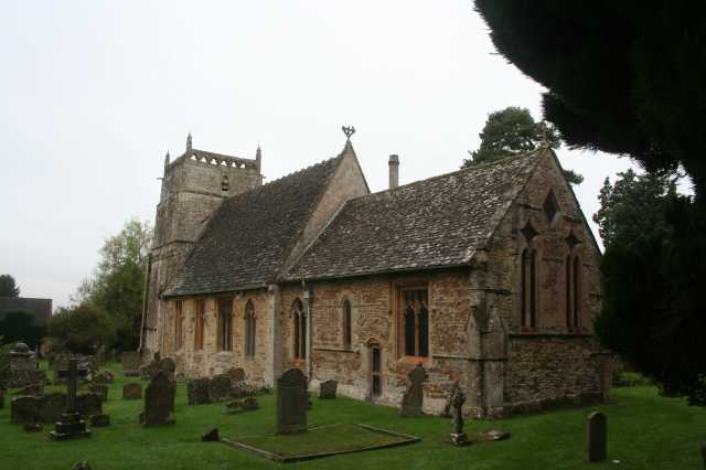 St Lawrence Church, Wyck Rissington